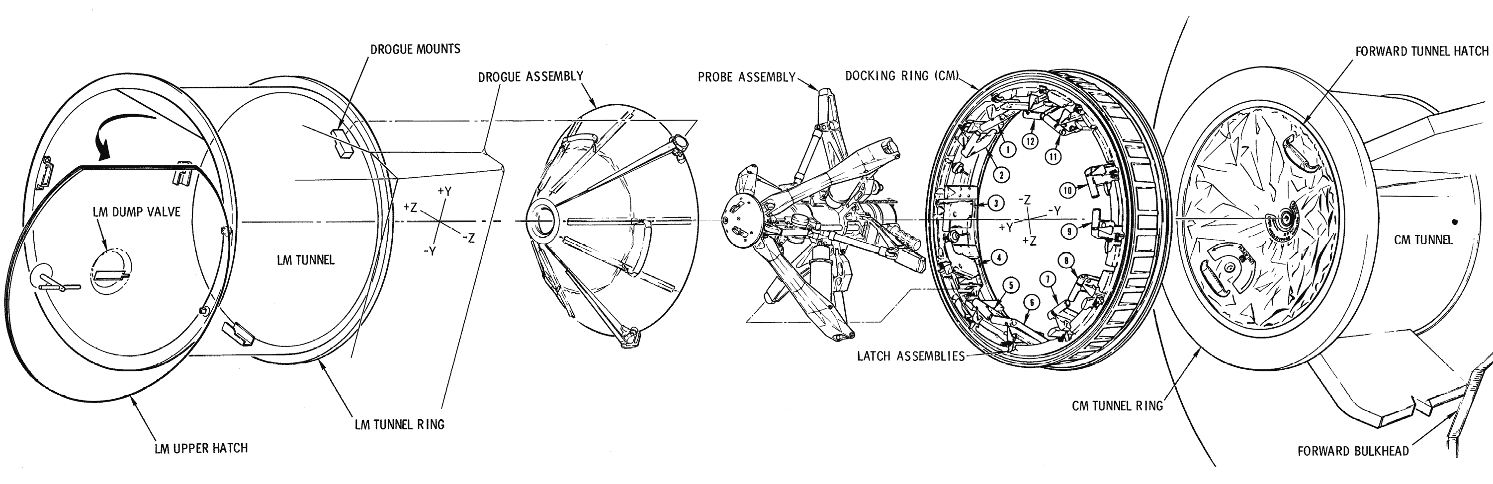 Probe and drogue docking system of the Apollo spacecrafts (drawing)